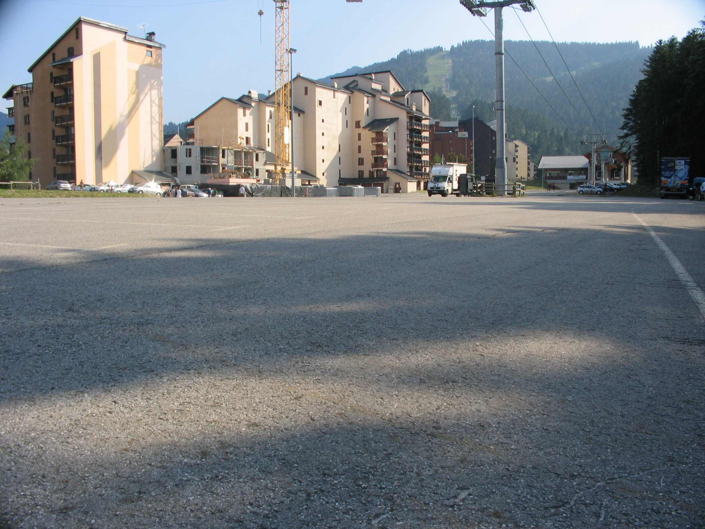 Plateau de Bonascre